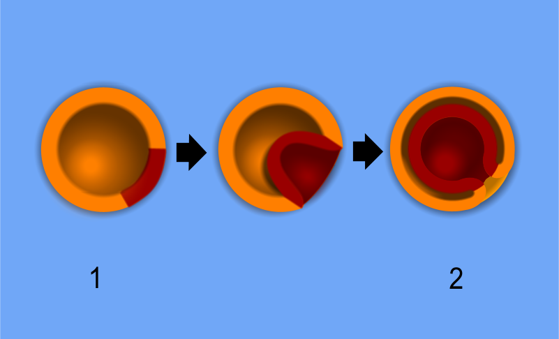 A scheme of embryo gastrulation.